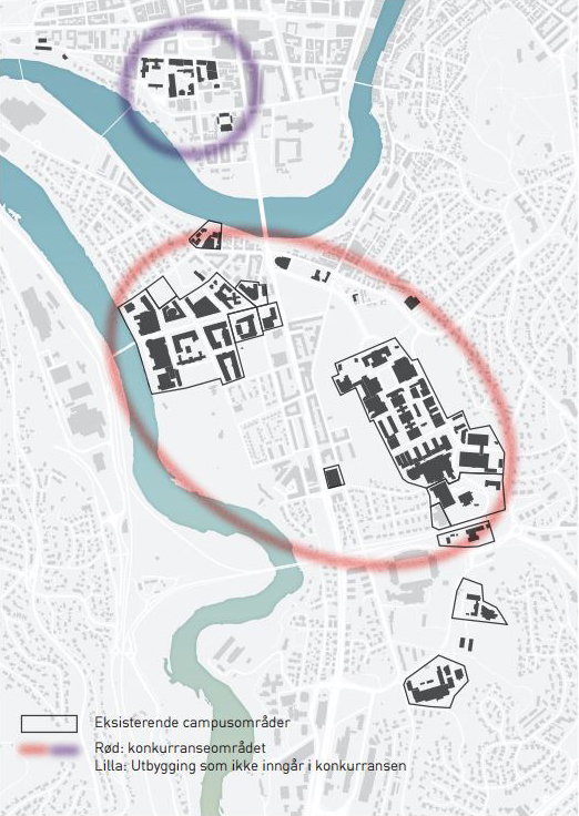 Map showing (red circle) the area for the campus development competition, NTNU Trondheim